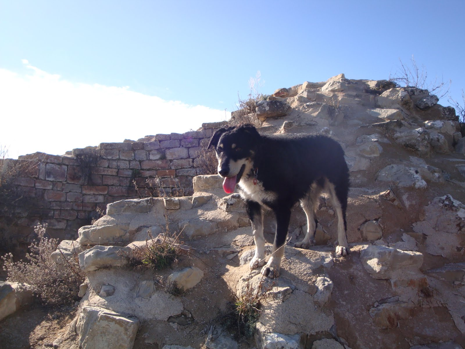 Can de Chira